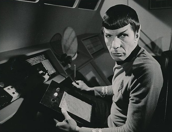 Leonard Nimoy as Spock, in a publicity photo for 1960's American television show Star Trek.